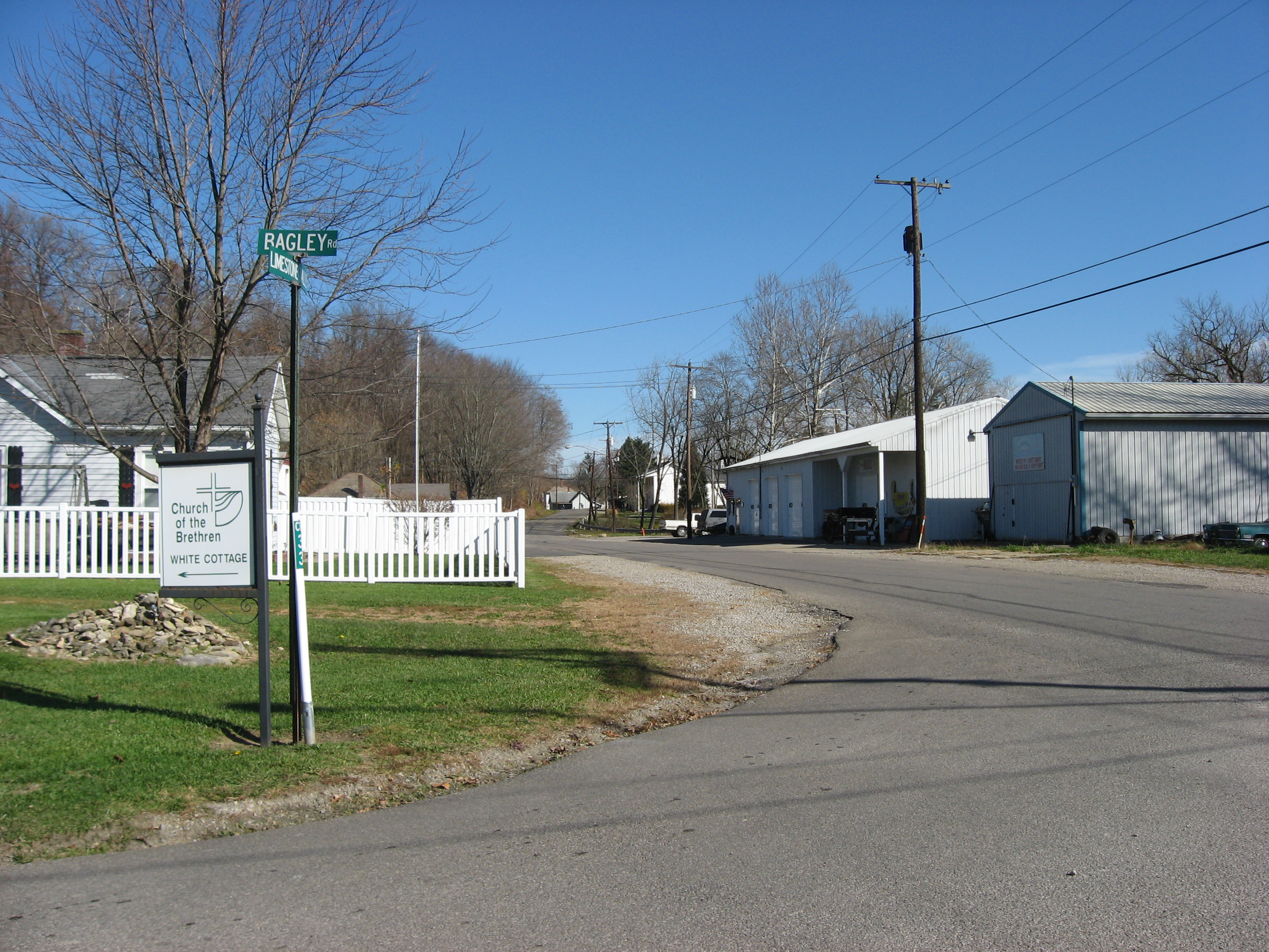 Along Limestone Valley Road (the old U.S. Route 22) at its intersection with Bagley Road in White Cottage, an unincorporated community in Newton Township, Muskingum County, Ohio, United States.